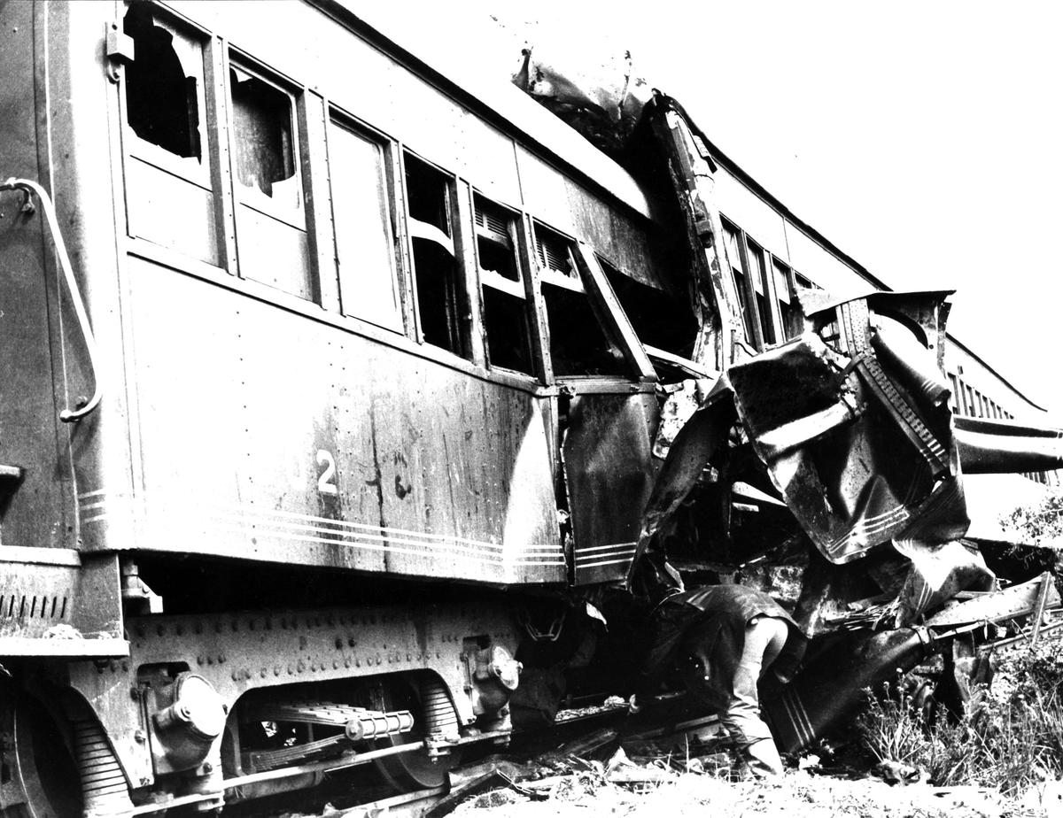 Rail transport accident in Benavídez.